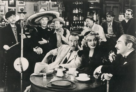 June Havoc & Adolphe Menjou (right) in Hi Diddle Diddle - publicity still (original image cropped : see source)